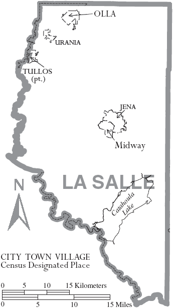 Map of La Salle Parish, Louisiana, United States with municipal boundaries